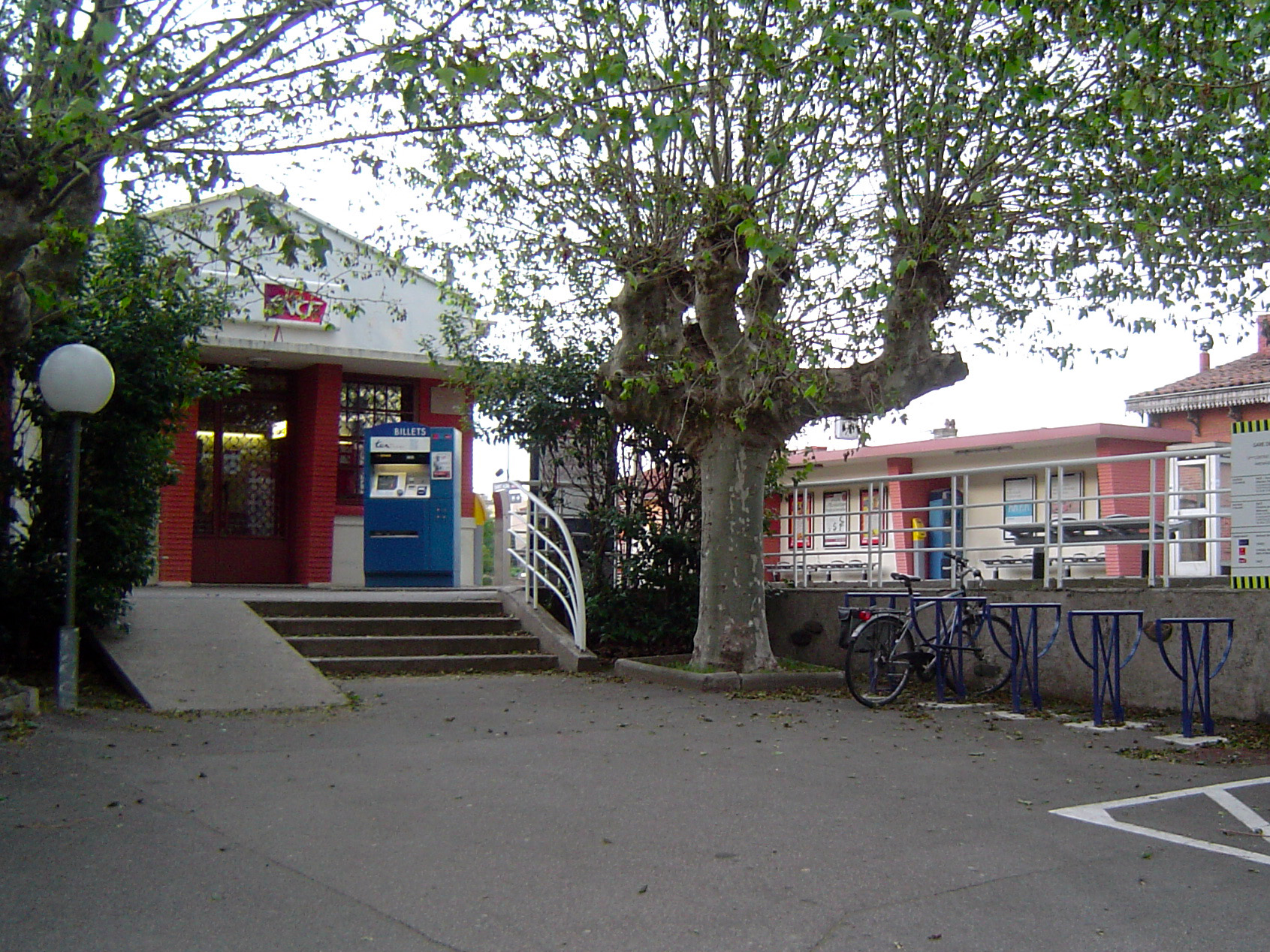 Entry to the Saint Agne station in Toulouse, Haute-Garonne, France.